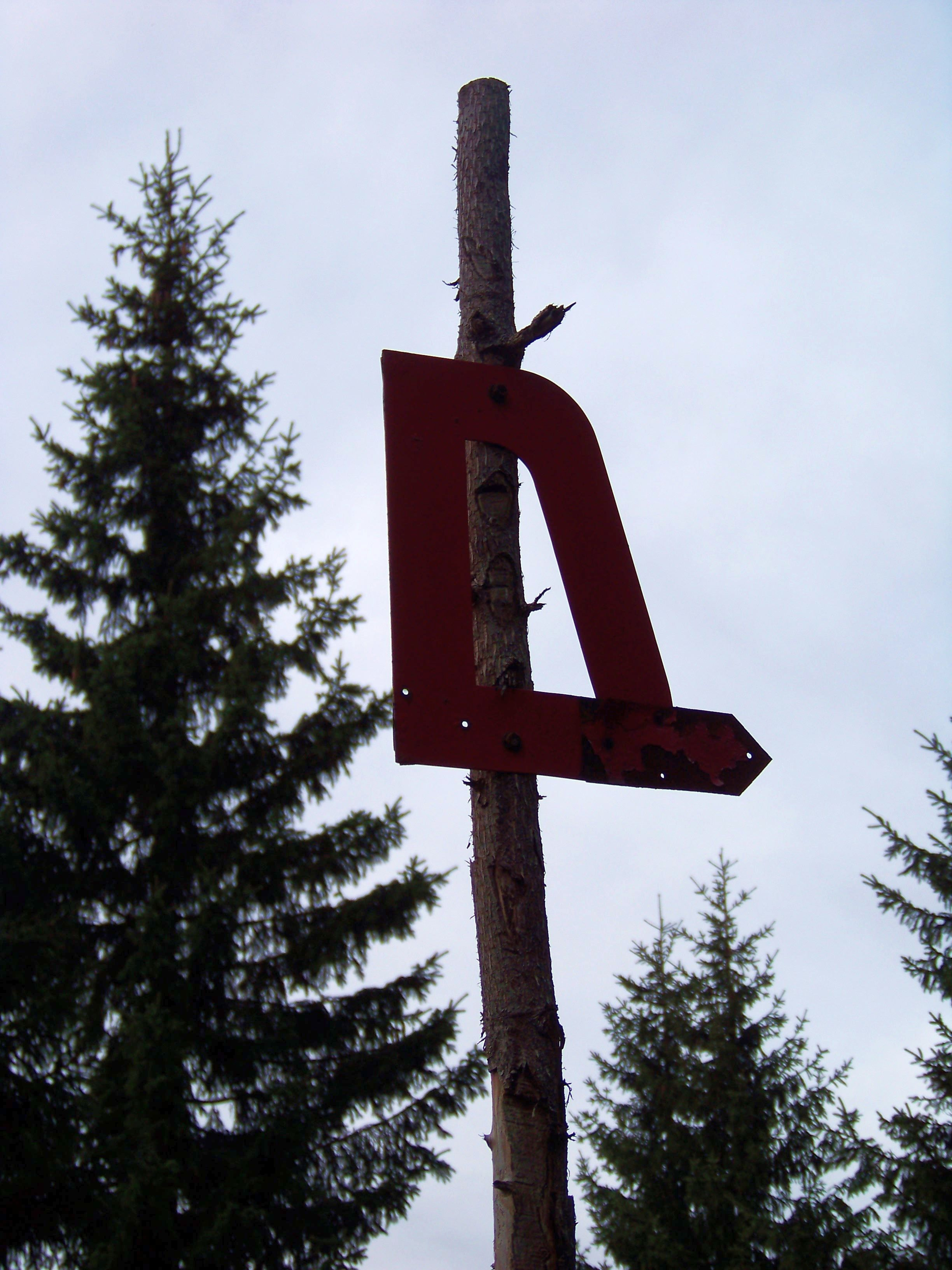 Rokytnice nad Jizerou-Rokytno, Semily District, Liberec Region, the Czech Republic. A Muttich's sign near Dvoračky.